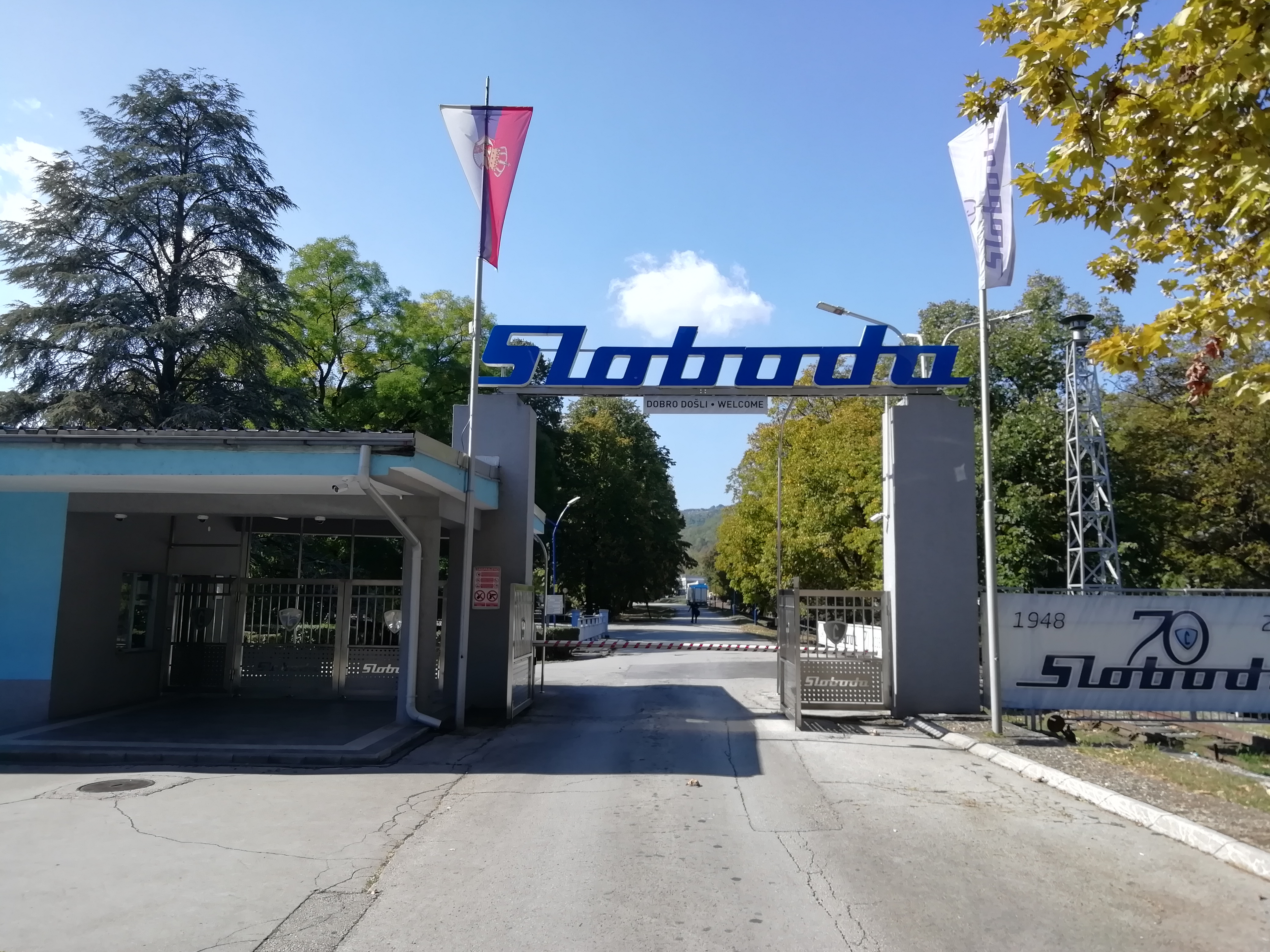 Main entrance of Sloboda Čačak, September 2019